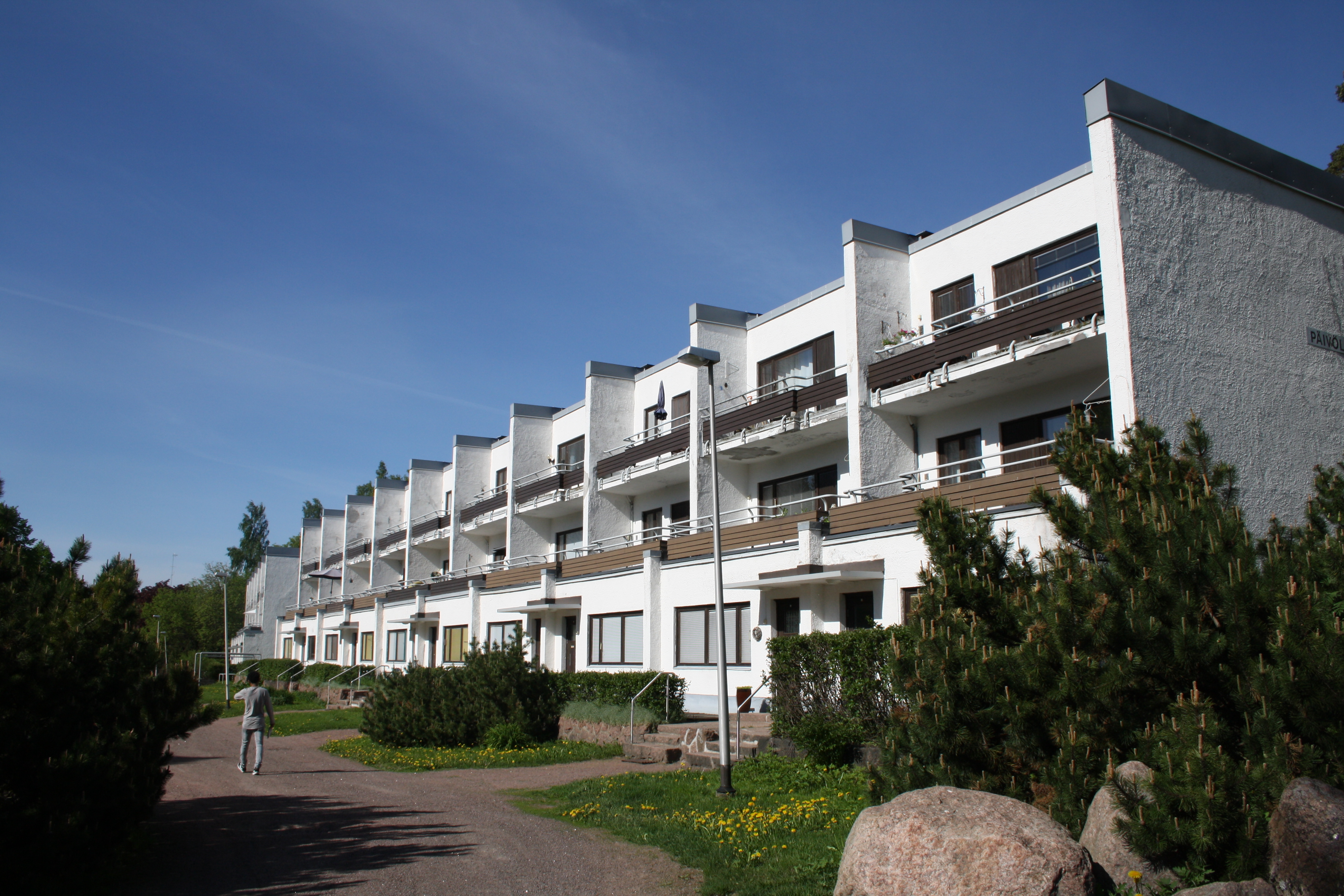 Building planned by Alvar Aalto in Sunila.